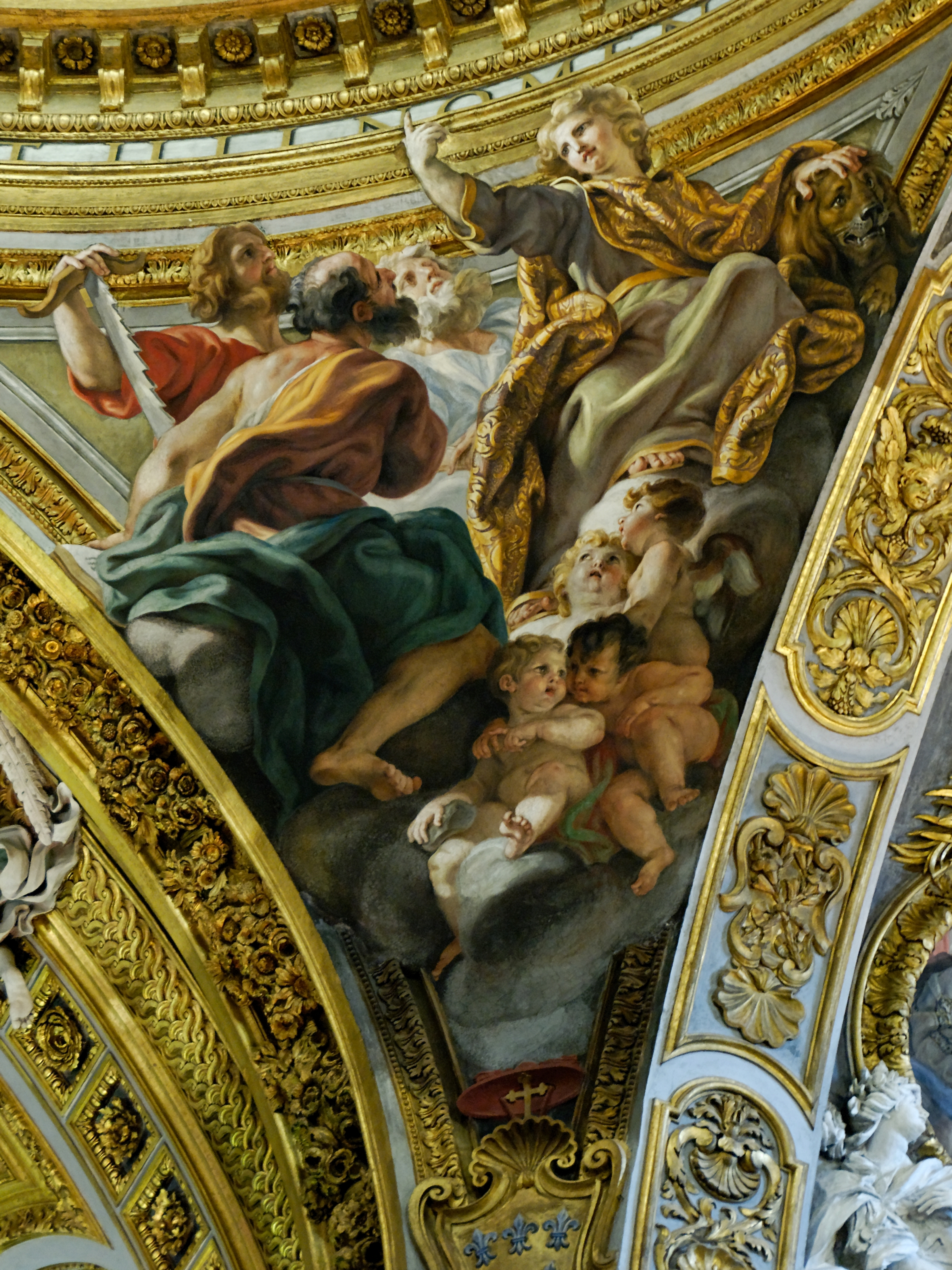 Daniel, Ezekiel, Jeremiah and Isaiah by il Baciccio. Pendentive of the dome of the Gesù, Rome.